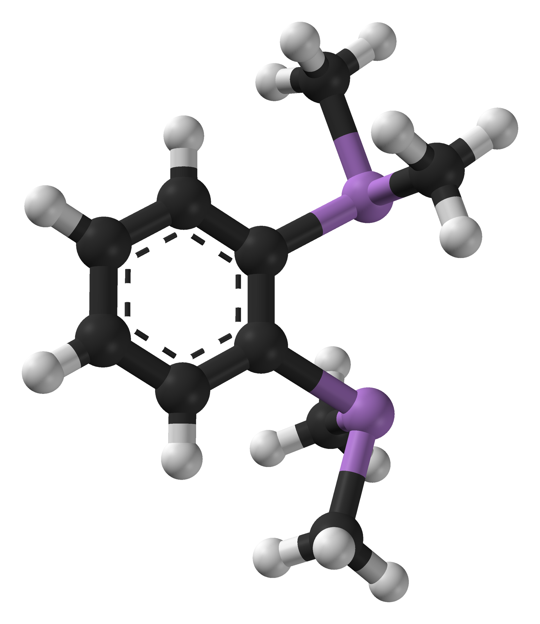 Ball-and-stick model of the 1,2-bis(dimethylarsino)benzene molecule, C10H16As2, more commonly known as diars. Colour code: Carbon, C: black Hydrogen, H: white Arsenic, As: purple Structure calculated with Spartan Student 4.1, using the Hartree-Fock level of theory and the 3-21G basis set. Image generated in Accelrys DS Visualizer.